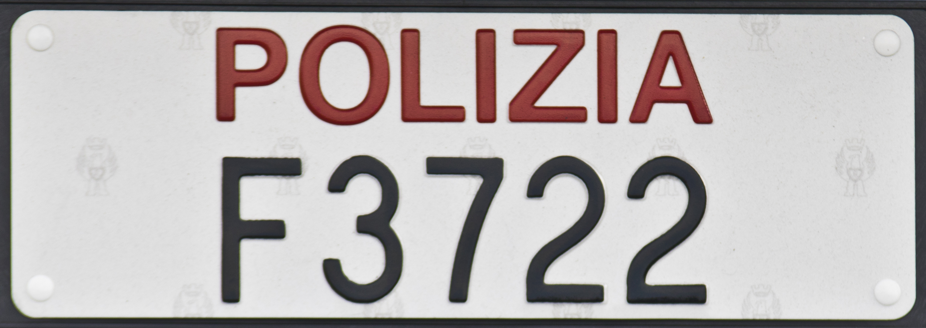 Registration Plate of Polizia Nazionale